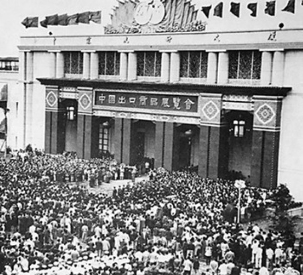 Guangzhou Sino-Soviet Friendship Building in 1957. It was the holding location of the first Canton Fair. 中文（中国大陆）: 1957年的广州中苏友好大厦，为首届广交会（当时叫中国出口商品交易会）的会址。